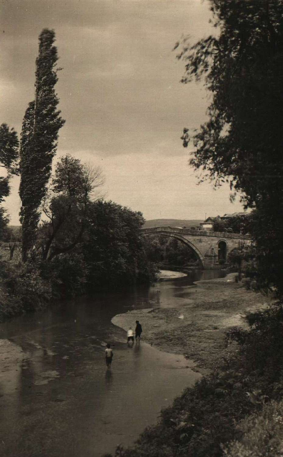 Harmanli, Bulgaria